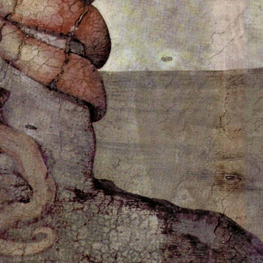 Michelangelo- Sistine Chapel, small detail of Adam and Eve pic showing damage and dirt, for comparison with similar detail.